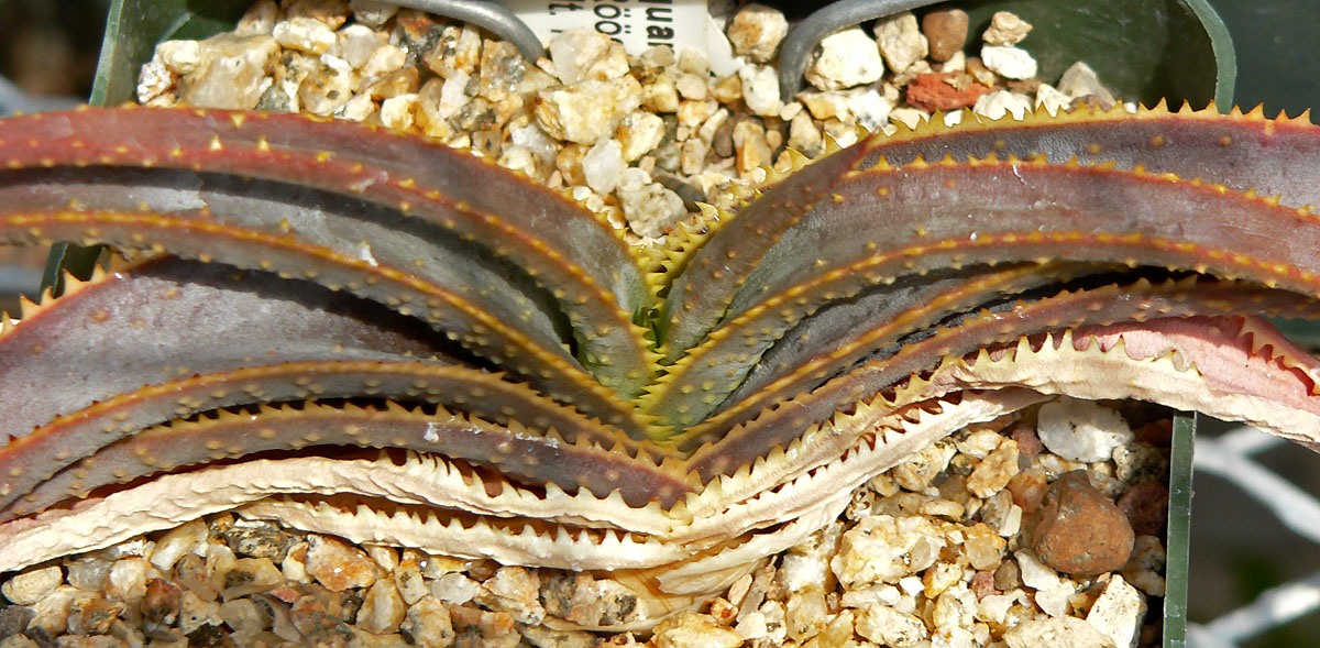 Aloe camperi var. rugosquamosa at the University of California Botanical Garden, Berkeley, California